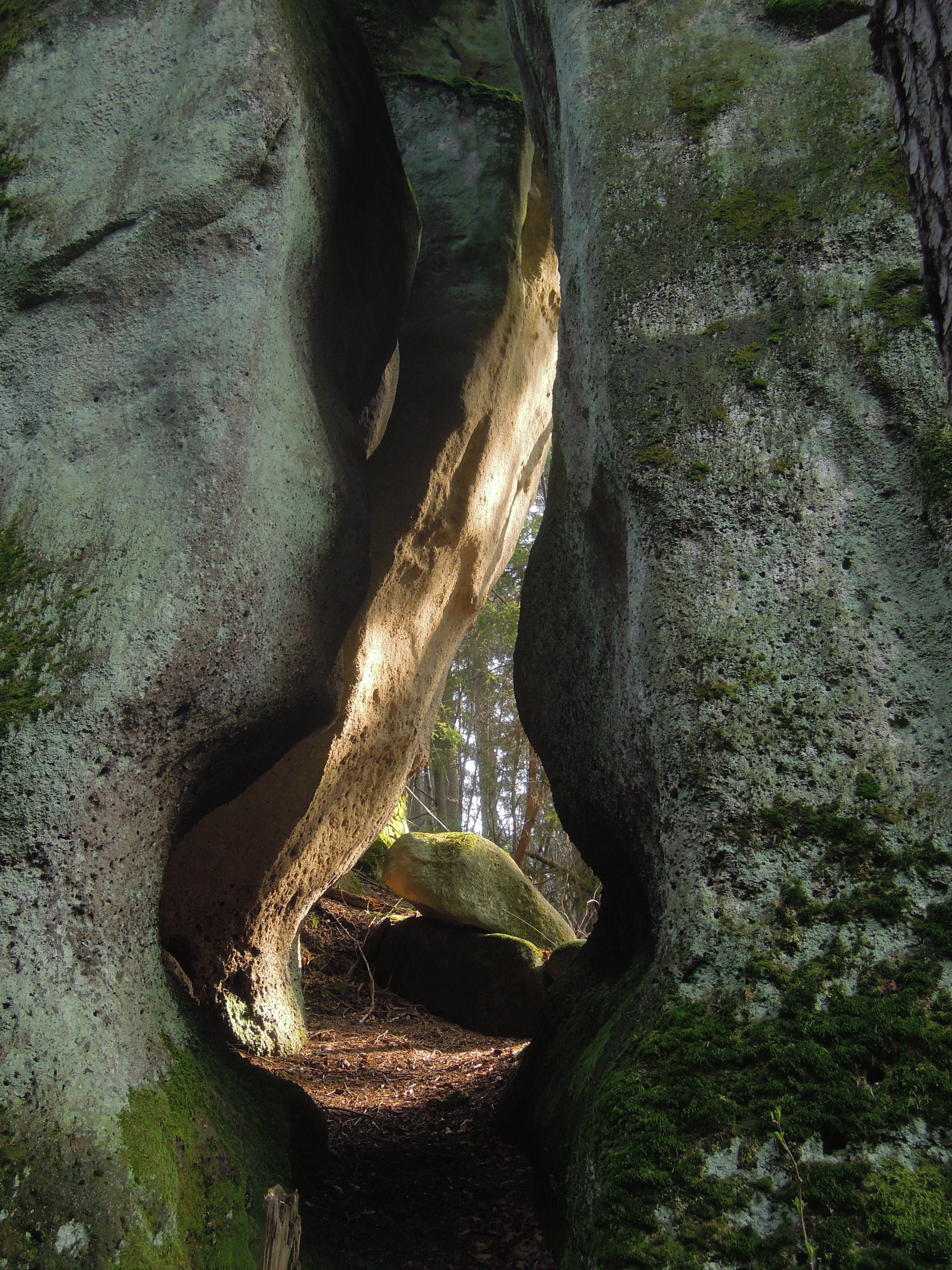 National nature reserve Pulčín - Hradisko (part Hradisko) near Pulčín, Vsetín District, Zlín Region, Czech Republic